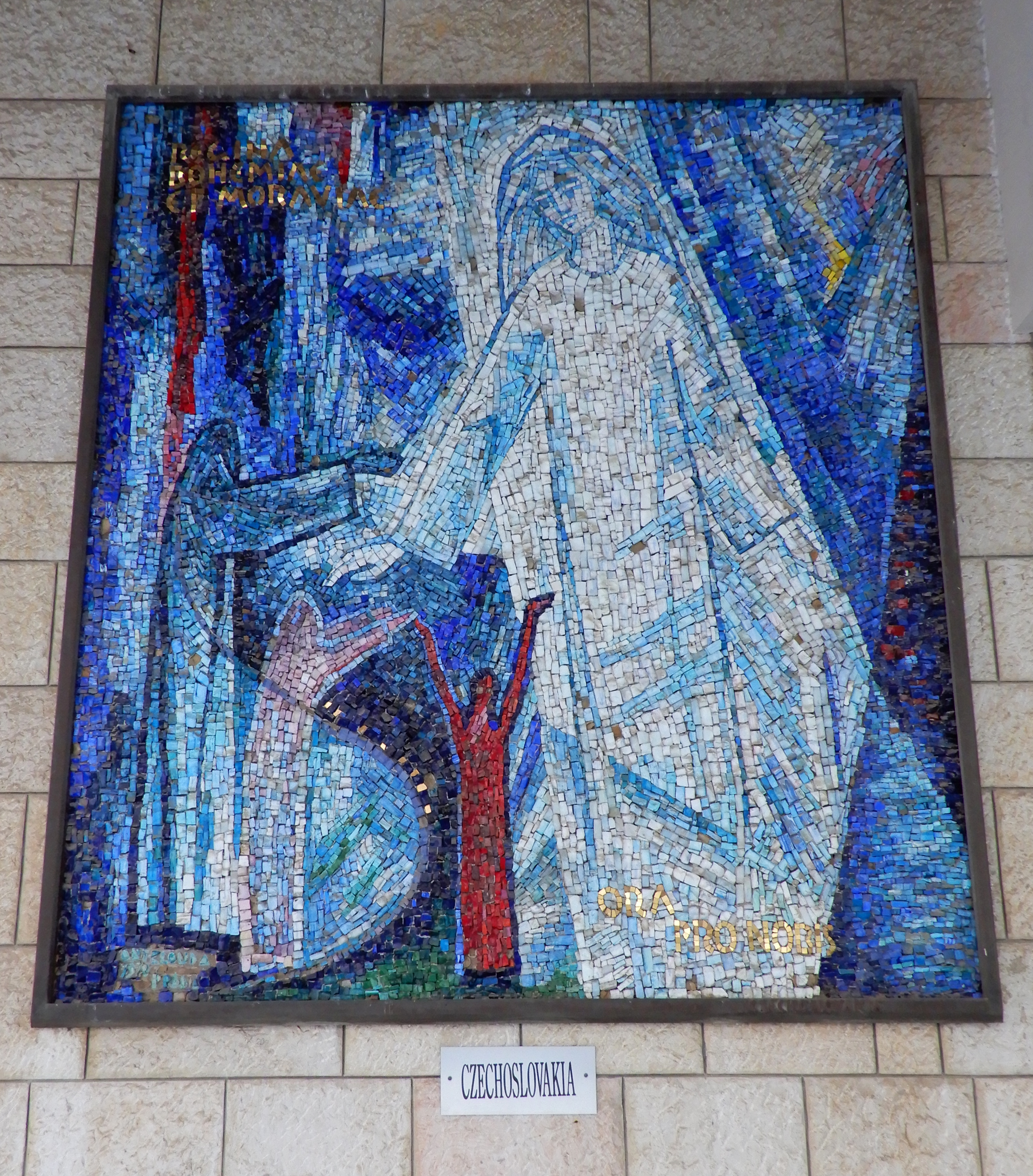 Antonín KLOUDA, Virgin Mary, the patron saint of Bohemia and Moravia, mosaic, Prague ca 1980, the ambit in a front of the church of the Virgin Mary, Nazareth (Israel)